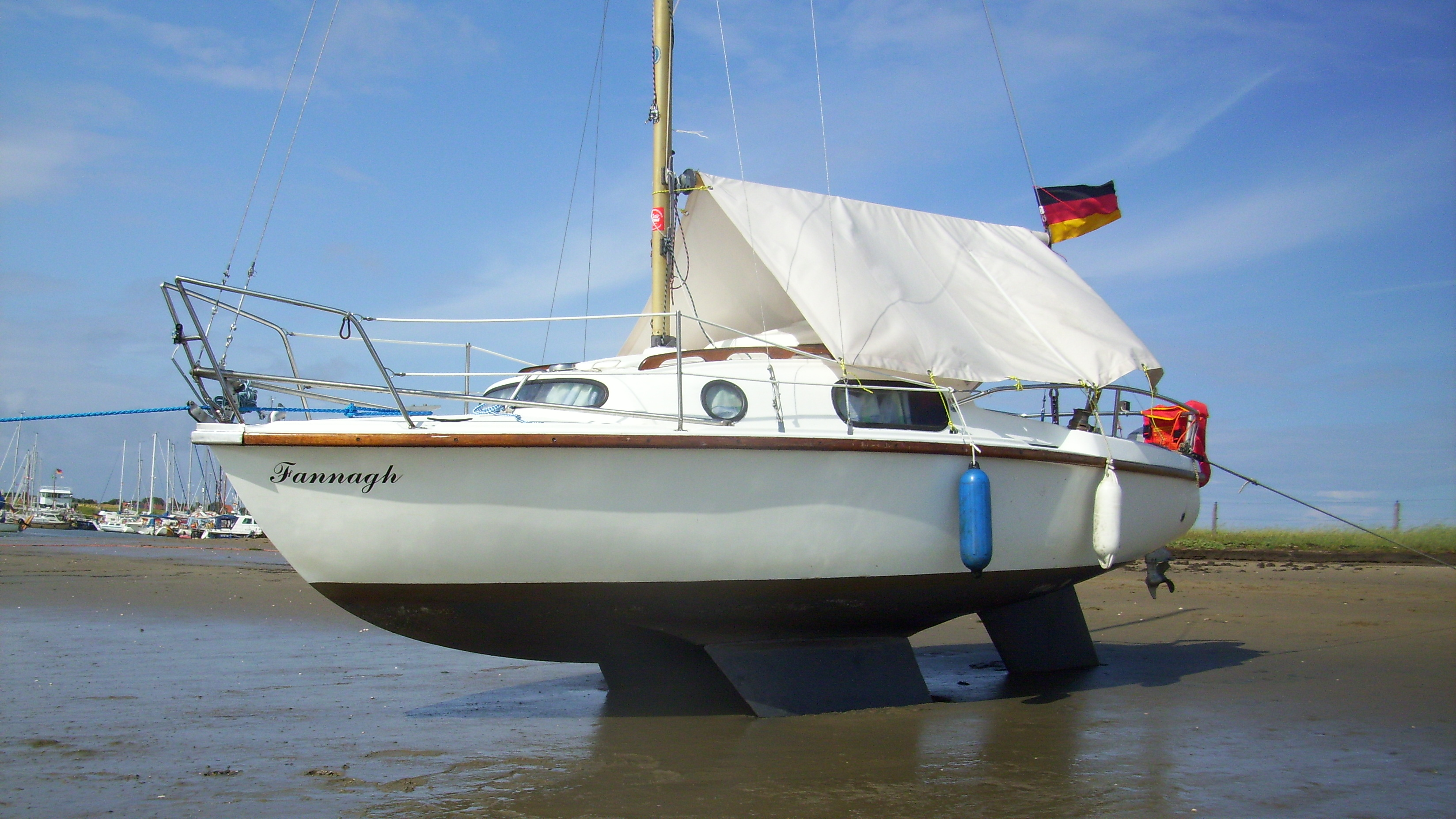 Leisure 17 in der Spiekerooger Fahrrinne